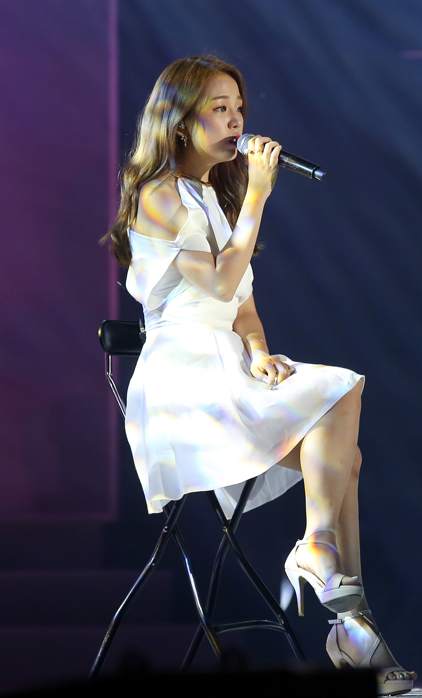 2015 Summer K-POP Festival August 4, 2015 Seoul Plaza Ministry of Culture, Sports and Tourism Korean Culture and Information Service ( Official Photographer : Jeon Han